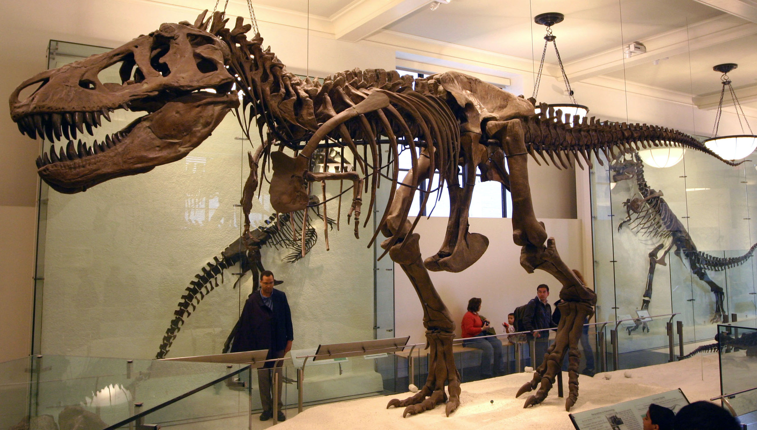 Tyrannosaurus rex skeleton (the specimen AMNH 5027) at American Museum of Natural History.